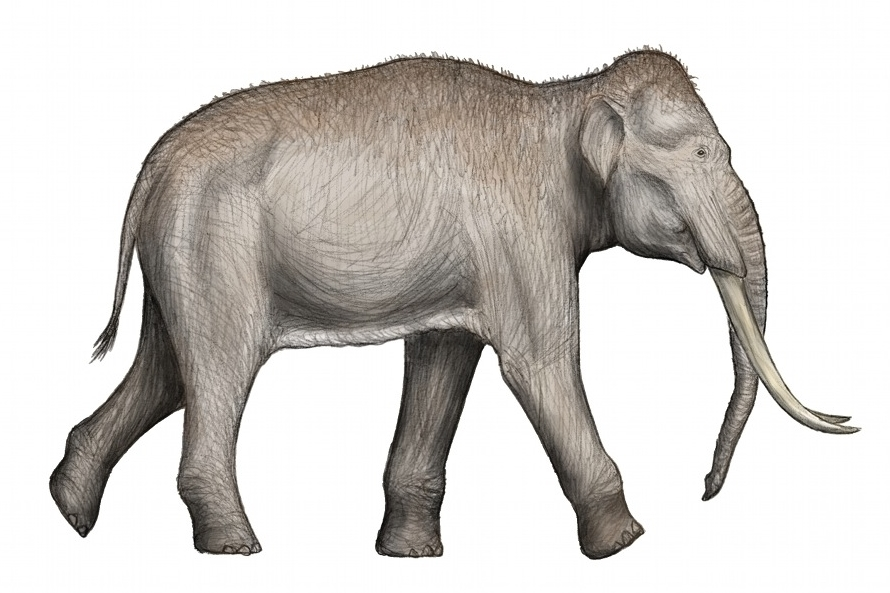 Life restoration of E. antiquus based on a skeletal depiction and the anatomy of E. maximus.